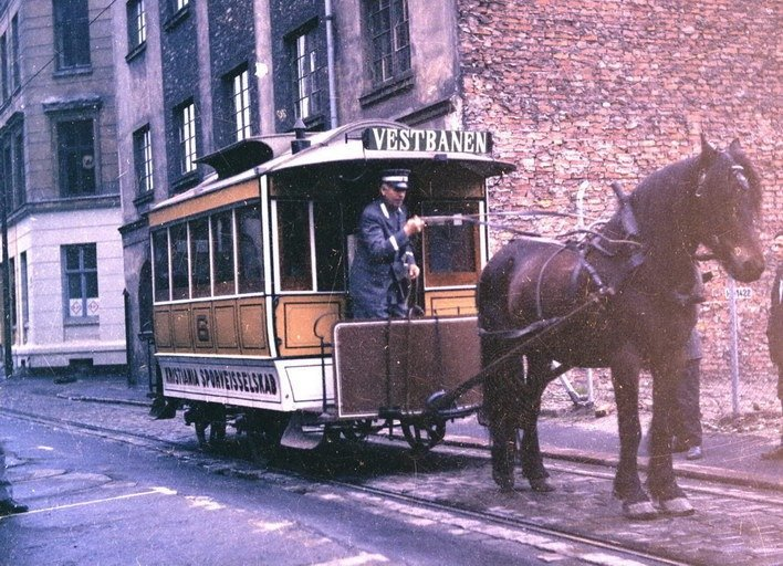 Picture taken during the production of the film Sult (Hunger) in 1966. This is a preserved horsecar operated by Kristiania Sporveisselskab. The location was the Lambertseter Line's balloon loop at Vaterland on the Gamlebyen Line.